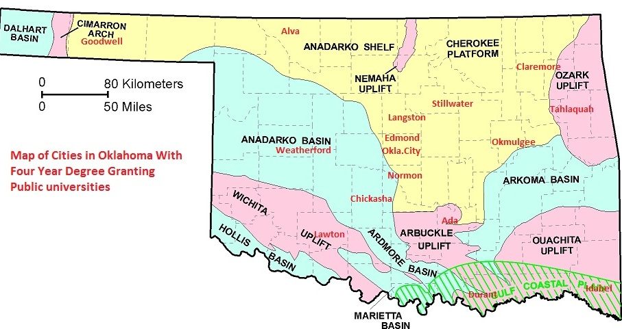 Map from of oklahoma from the US Geological Survey edited to add cities containing public four year degree granting universities in Oklahoma.